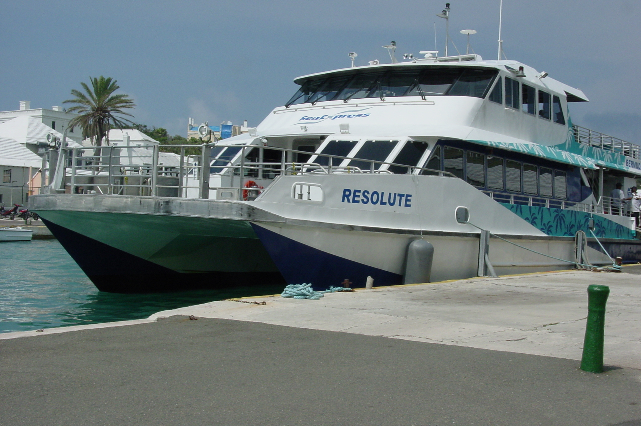 The Bermuda ferry boat Resolute docked at the Dockyard in Bermuda. IMO number: 9240029